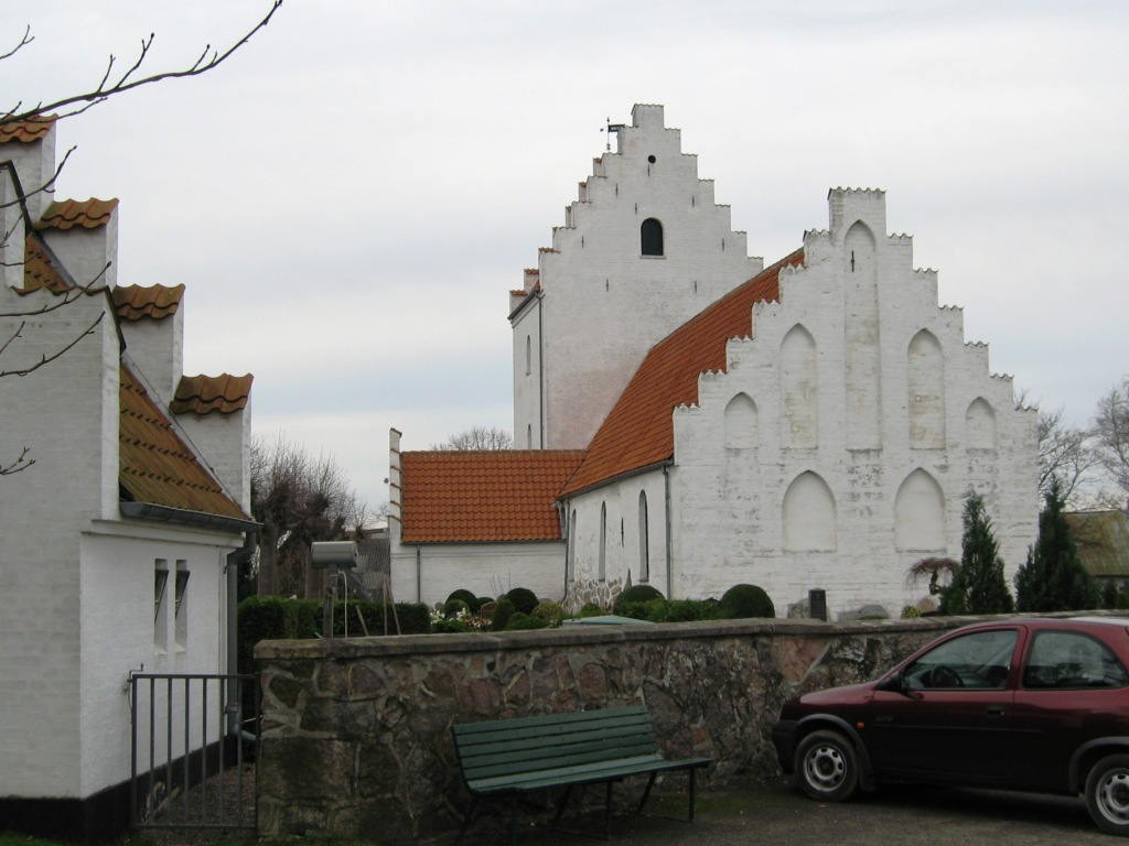 Bogø_kirke Denmark. Medieval stone church on the island of Bogø. 13th Century. Lutheran.